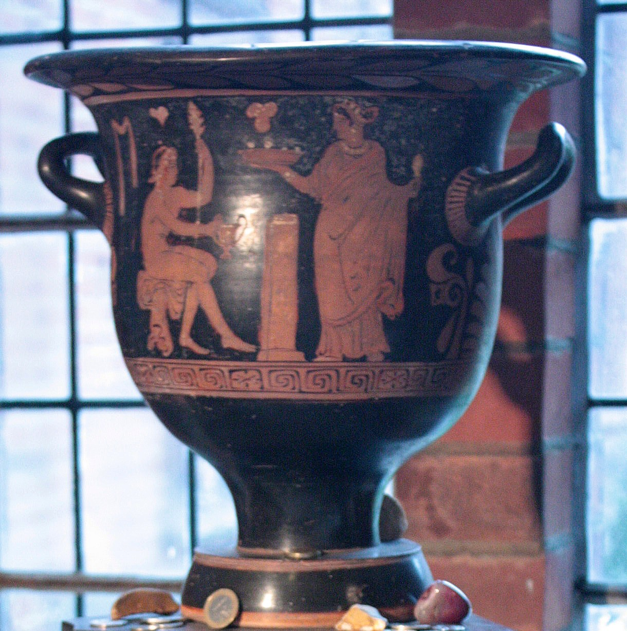 Funerary urn with Sigmund Freud's ashes in the Ernest George Columbarium, part of Golders Green Crematorium